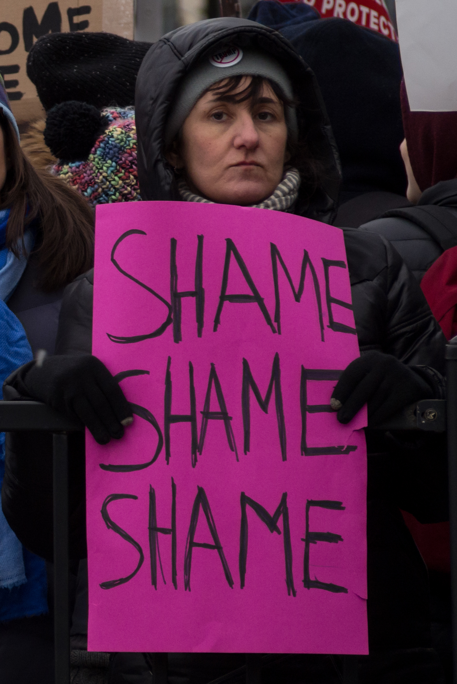 Protest at John F. Kennedy International Airport (JFK), Terminal 4, in New York City, against Donald Trump's executive order signed in January 2017 banning citizens of seven countries from traveling to the United States (the executive order is also known as "Protecting the Nation from Foreign Terrorist Entry into the United States").